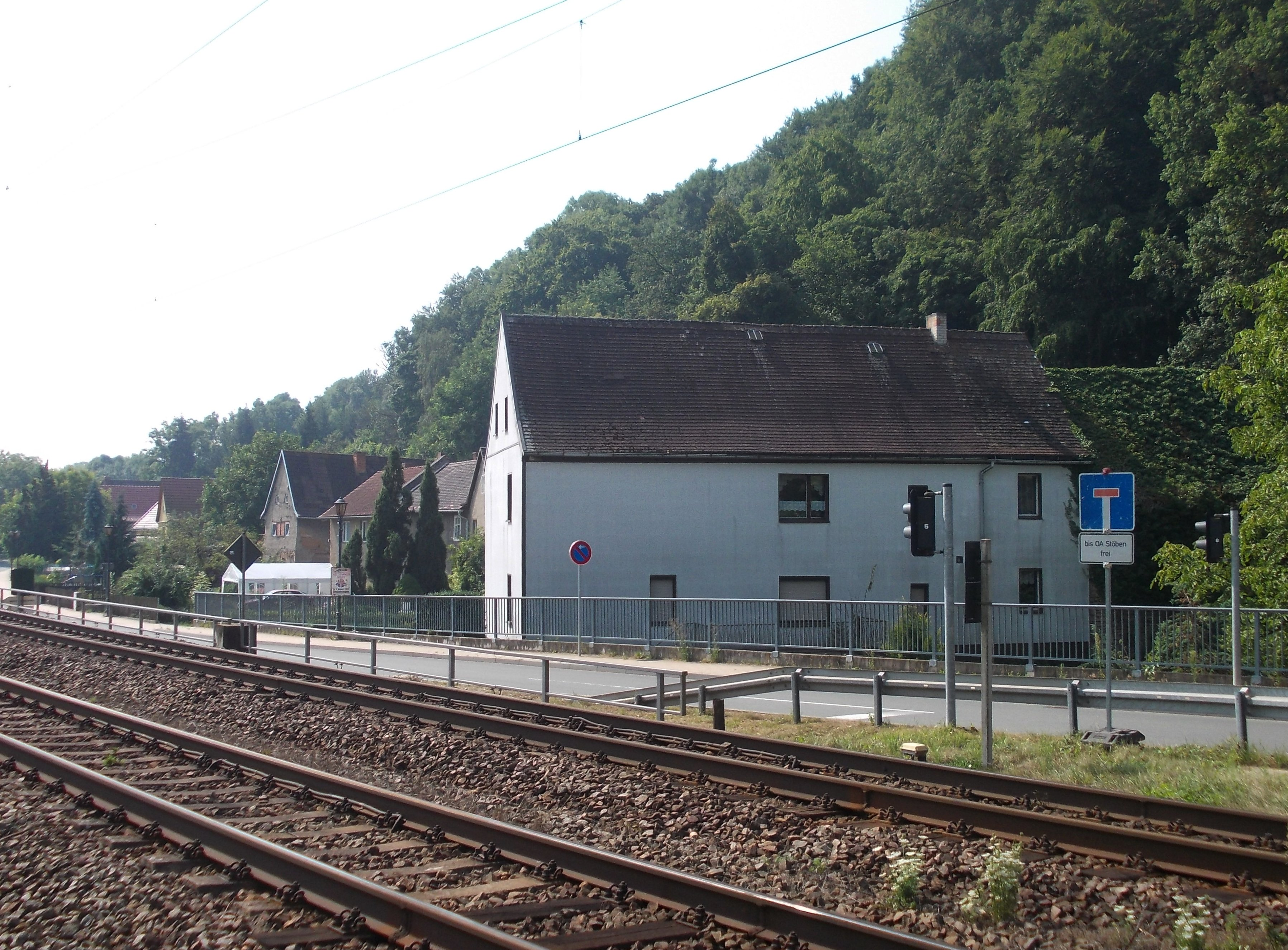 Weichau (Grossheringen, district of Weimarer Land, Thuringia) with railway line (Saalbahn)